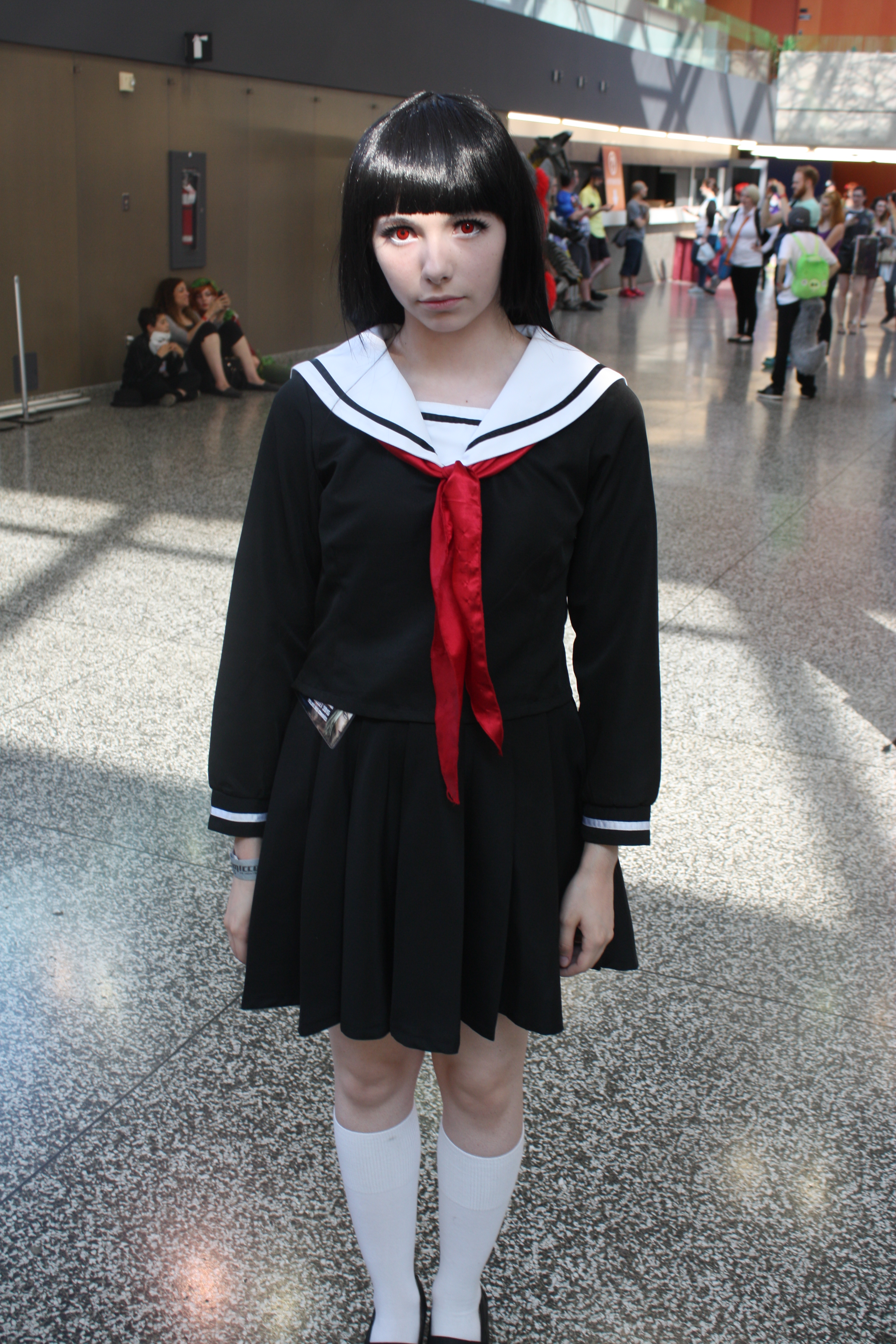 Cosplayer of Ai Enma from Hell Girl on day one of Montreal Comiccon 2015.